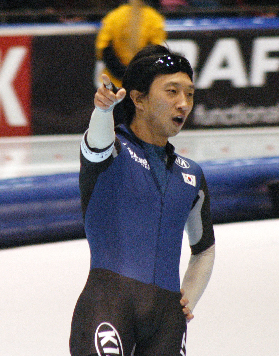 Lee Kyu-hyuk (KOR) in action at a World Cup Speedskating in Heerenveen, the Netherlands.